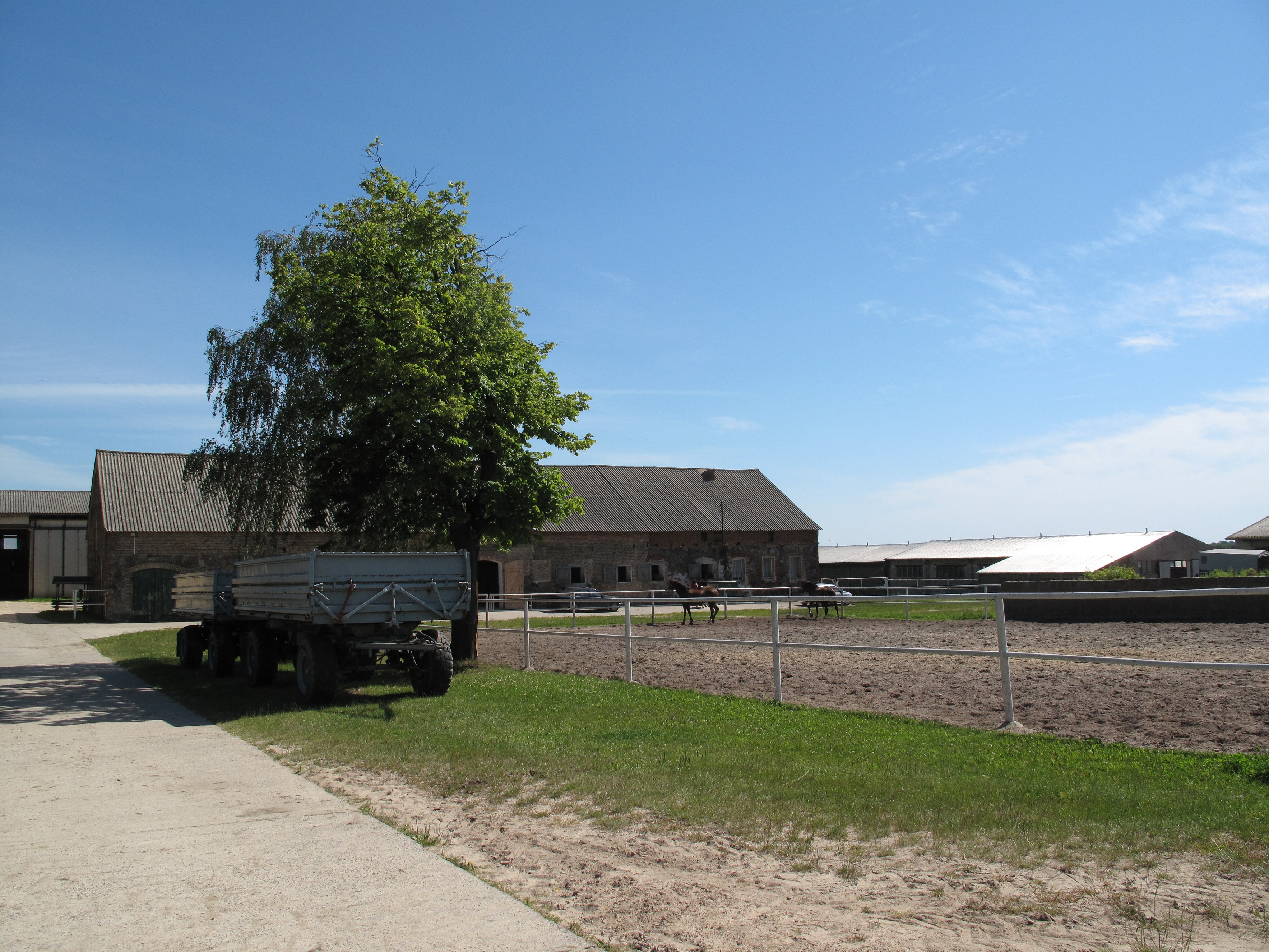 Stud farm Krugberghalle in Pritzhagen. Pritzhagen is a village of the municipality Oberbarnim in the District Märkisch-Oderland, Brandenburg, Germany. It is situated in the Märkische Schweiz Nature Park. The village green with its pond and the perimeter fieldstone-walls was extensively renovated in 2004.